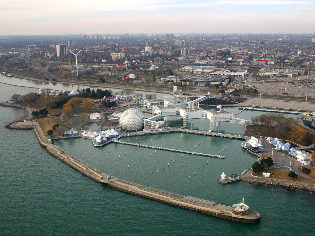 Aerial overview of Ontario Place, the Cinesphere, and the marina to the north. Photo by Duke, January 2006.